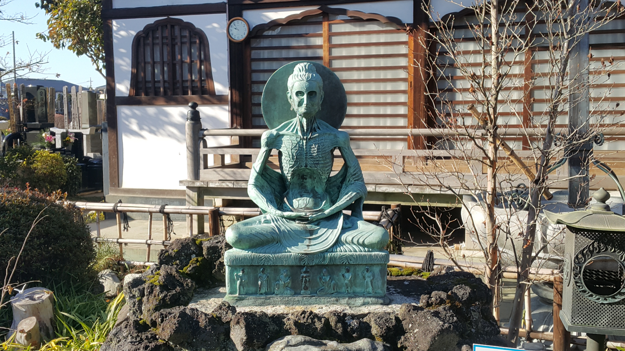 A Buddha statue in Kawagoe